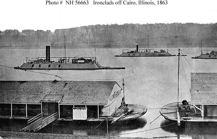 United States Navy ironclads off Cairo, Illinois, during the American Civil War.